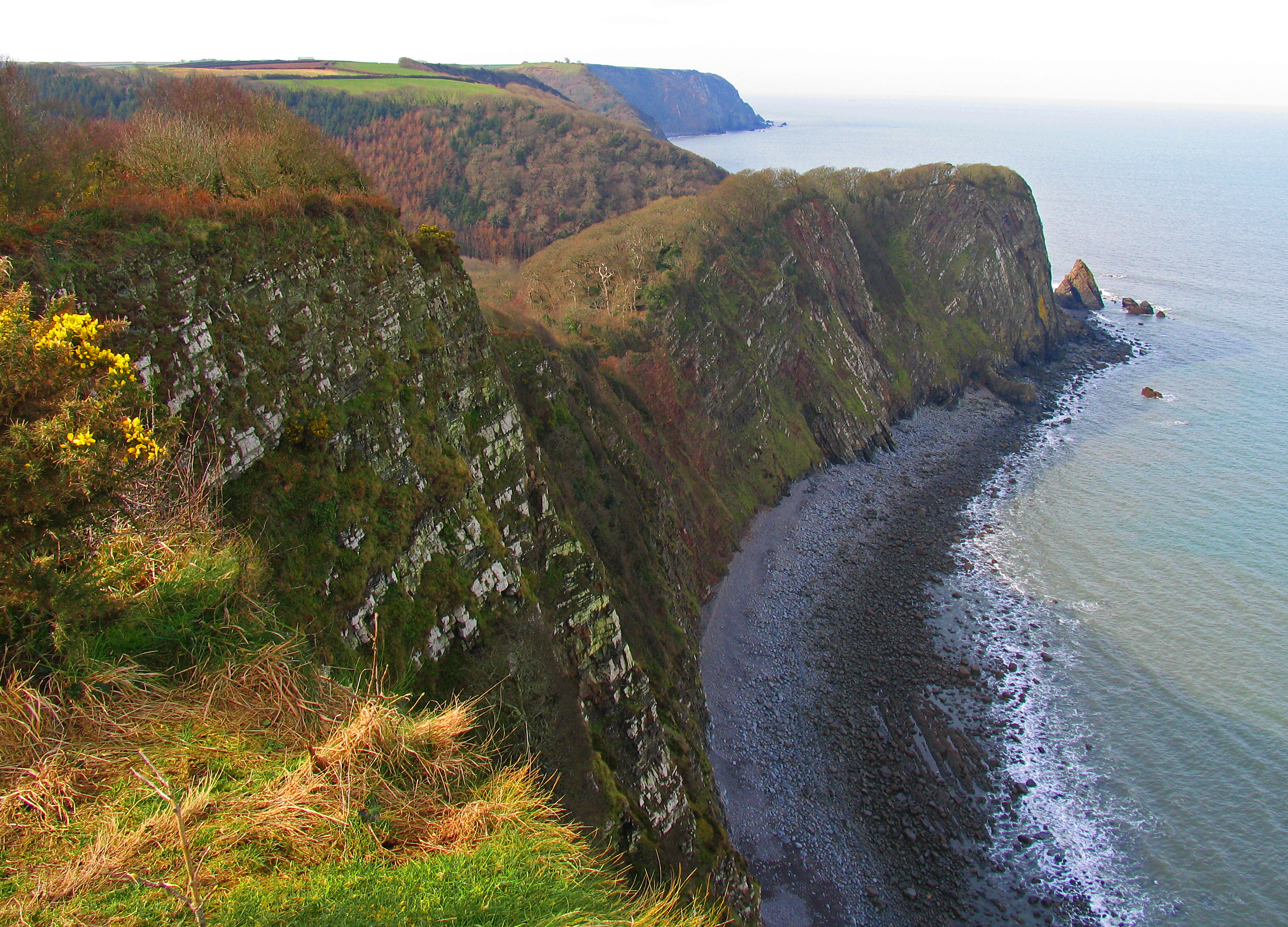 Author: MHenbert